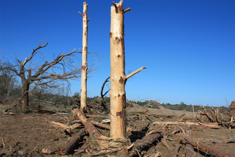 Large pine trees stripped of their bark and snapped in half near Boston, GA. This damage was used to assign the EF-3 rating.